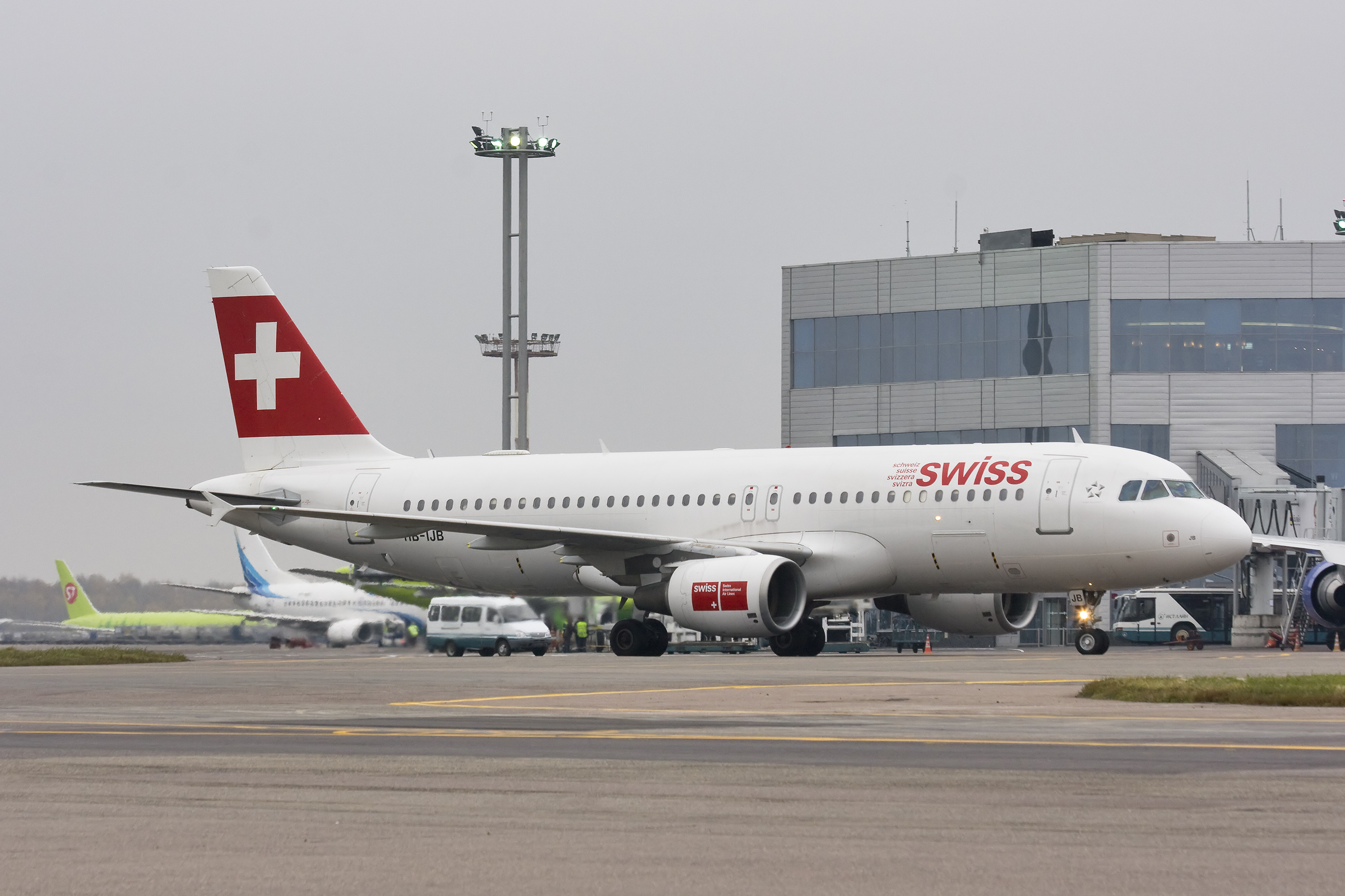 SwissAir Airbus A320-214, Domodedovo airport